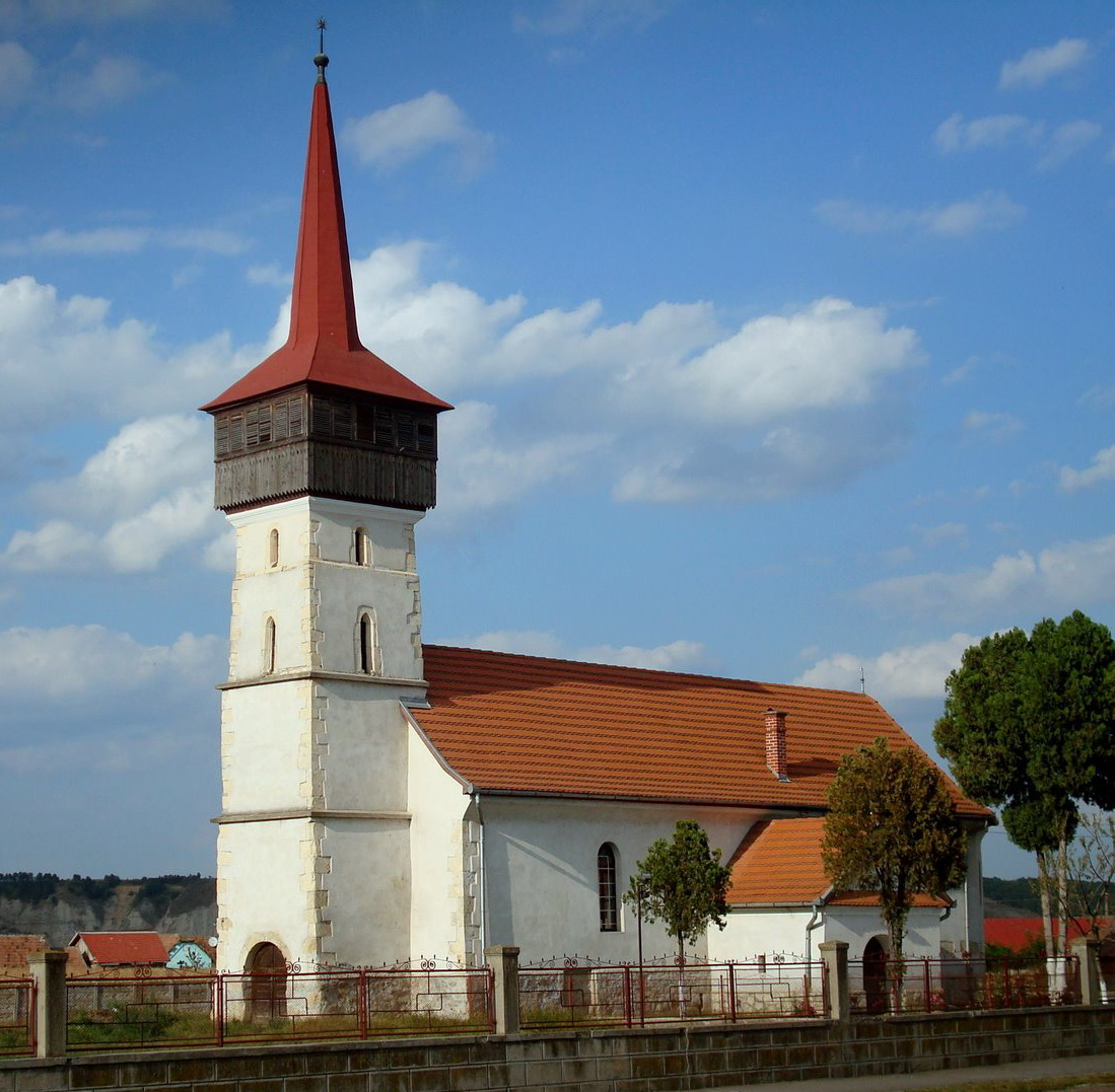 Turda, Calvinist Reformed Church (64 Câmpiei Street)